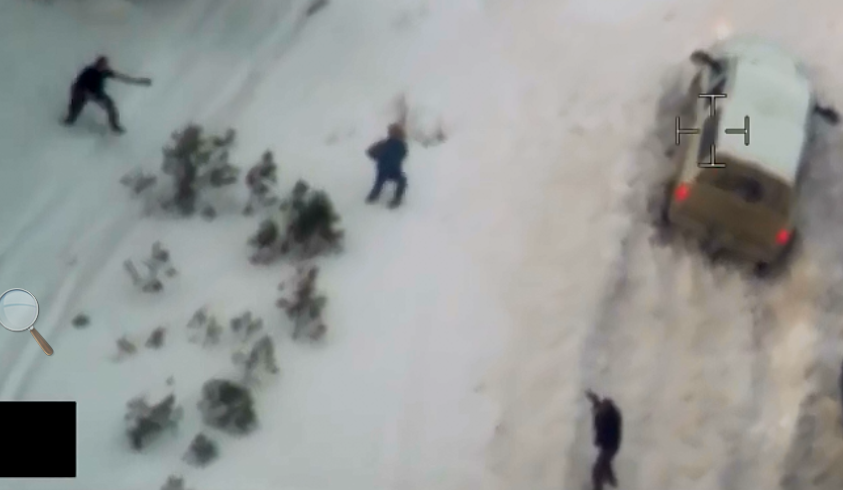 This still image is a detail cropped from a frame of video released by the FBI on YouTube, the original captured from an FBI surveillance aircraft on January 26, 2016. The magnifying glass graphic is not original to the video and was added by the uploader. This scene shows LaVoy Finicum immediately before he was shot and killed by the Oregon State Patrol. Finicum is seen immediately after exiting his vehicle, having left it in snow after an attempt to evade a police roadblock (seen immediately to the right in the original video) after fleeing the Malheur National Wildlife Refuge. Having exited the vehicle with his arms held out horizontally to the ground, telling officers they would have to shoot him, he then dropped his hands near his pockets, as seen here. One of his pockets held a Ruger SR9 handgun. He was shot immediately afterwards. The original uploader has "cropped and enlarged" the frame of video.